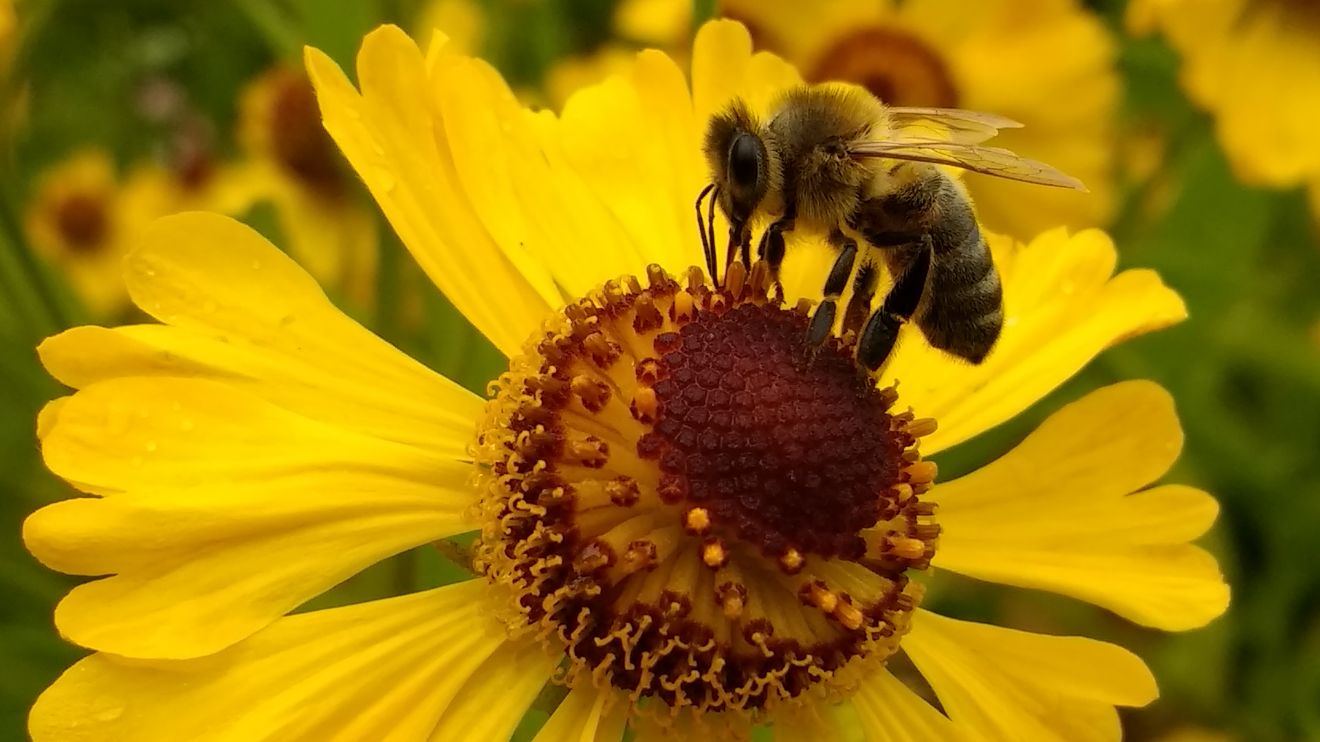 British Black Bee taken at Lost Gardens of Heligan Sep 2017 1920 x 1080 Kernowek: Lowarth Helygen